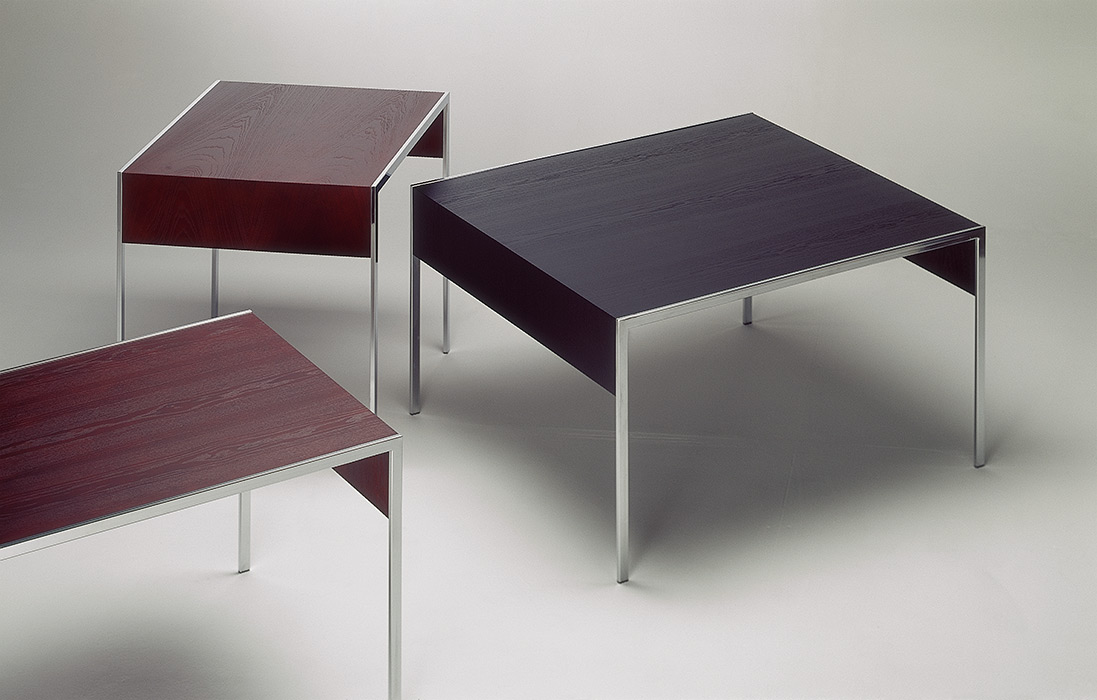 designed by Estonian designer Toivo Raidmets